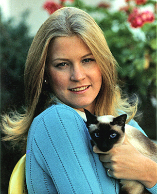 Susan Ford, daughter of US President Gerald Ford, with Shan, the Ford family's Siamese cat.